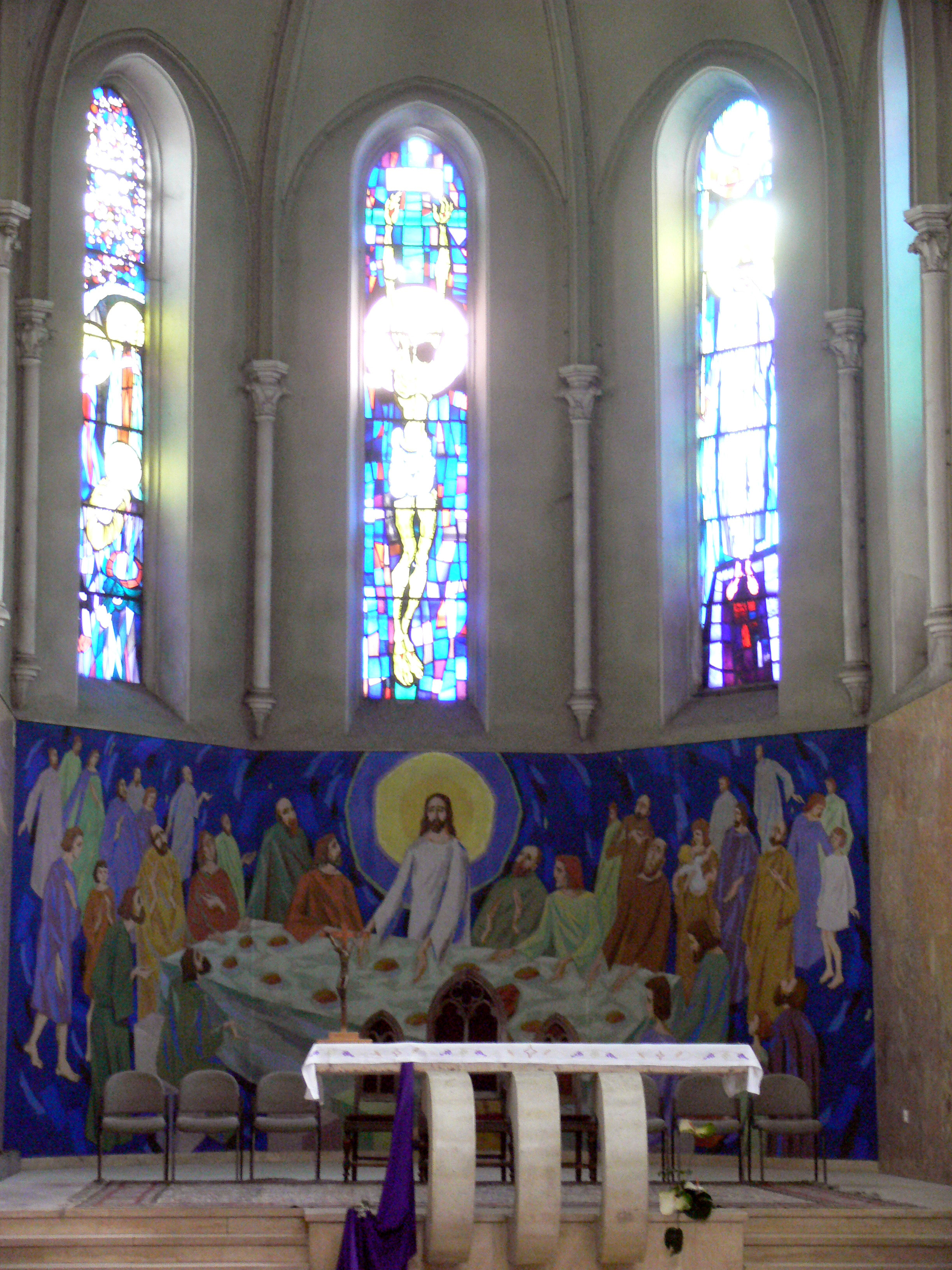 The Church "St. Antonius" near the Franciscan monastery in Sarajevo. Windows.